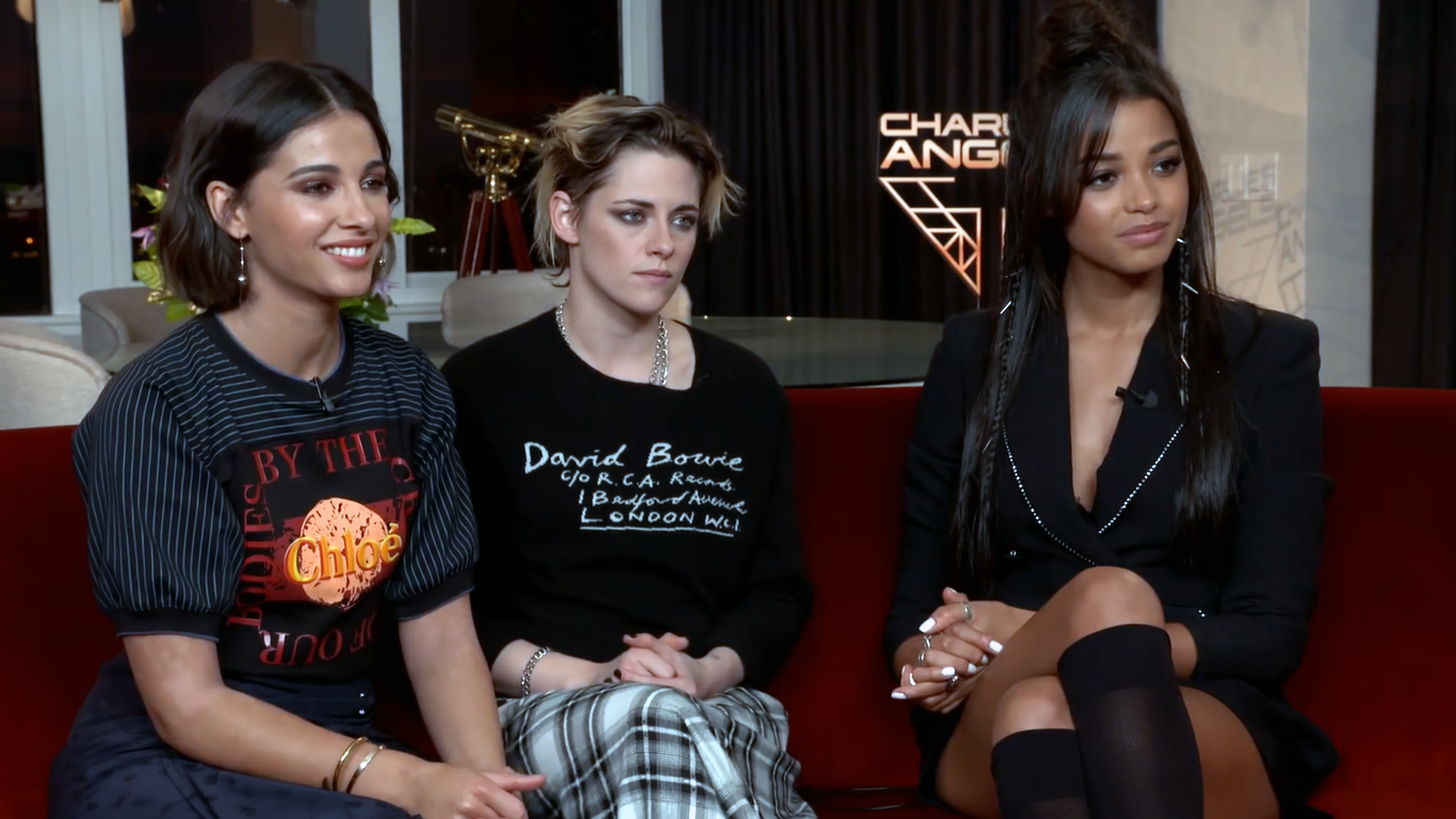 Charlie's Angels cast during interview, November 2019.